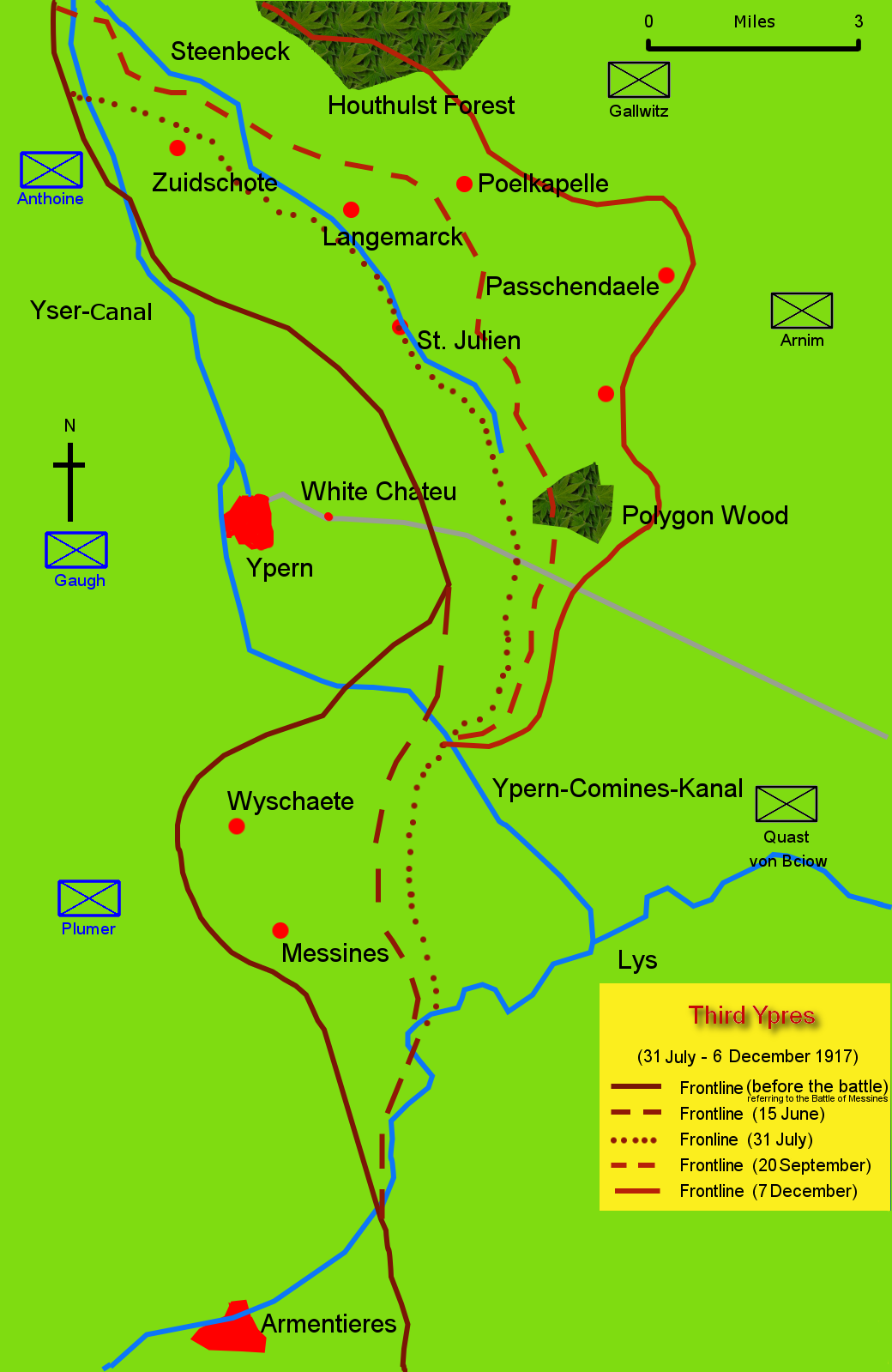 Map of the Battle of Passchendaele (Third Battle of Ypres). The first two lines from left (in dark red) mark the alliied progress before the actual Battle of Passchendaele.